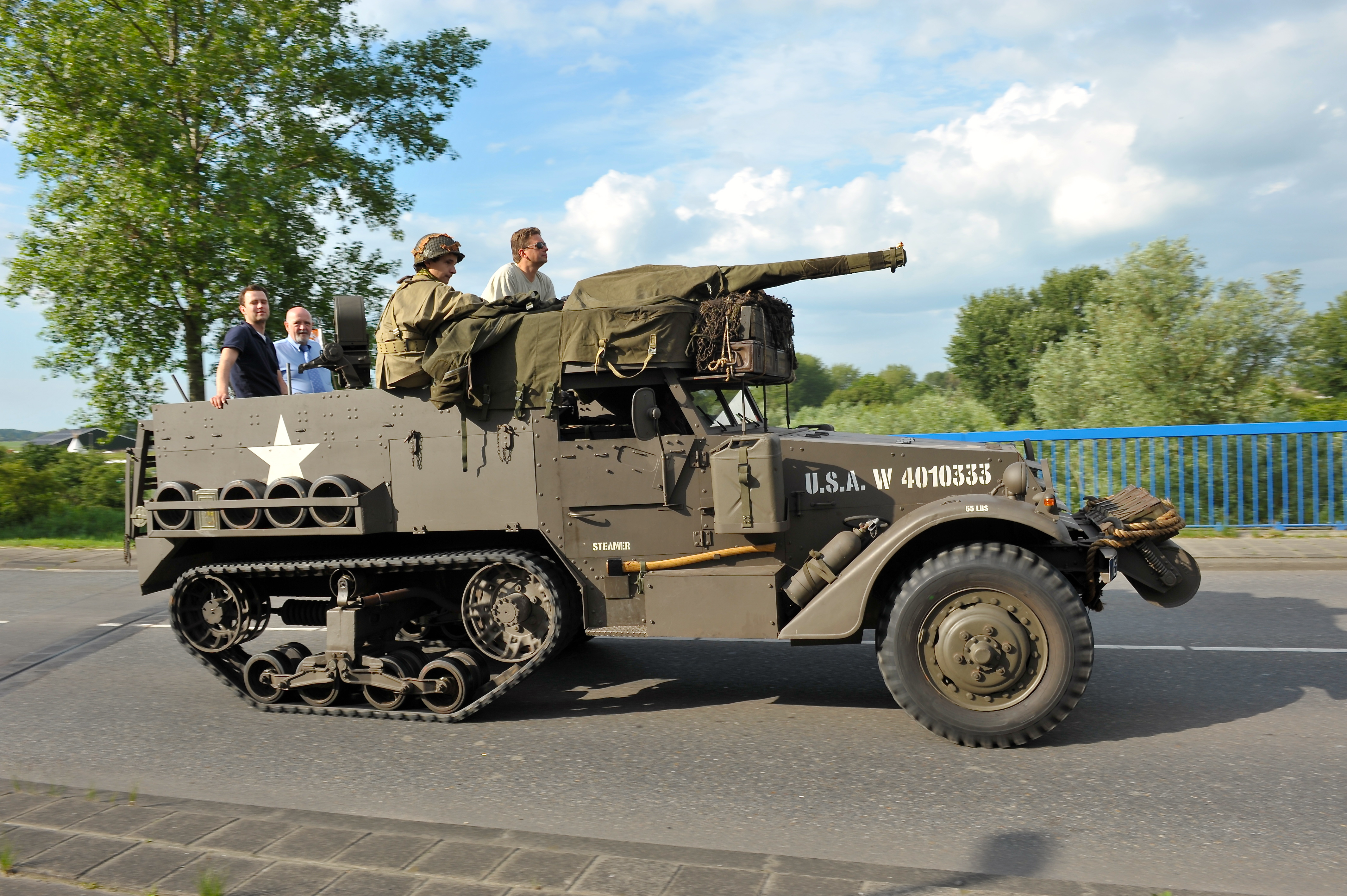 A picture of several actors with several people riding on a M9A1 Half-track.